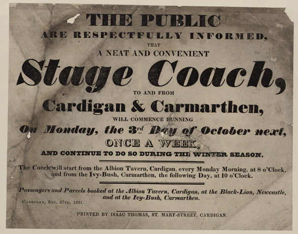 The Public are Respectfully Informed that a neat and convenient stage coach..